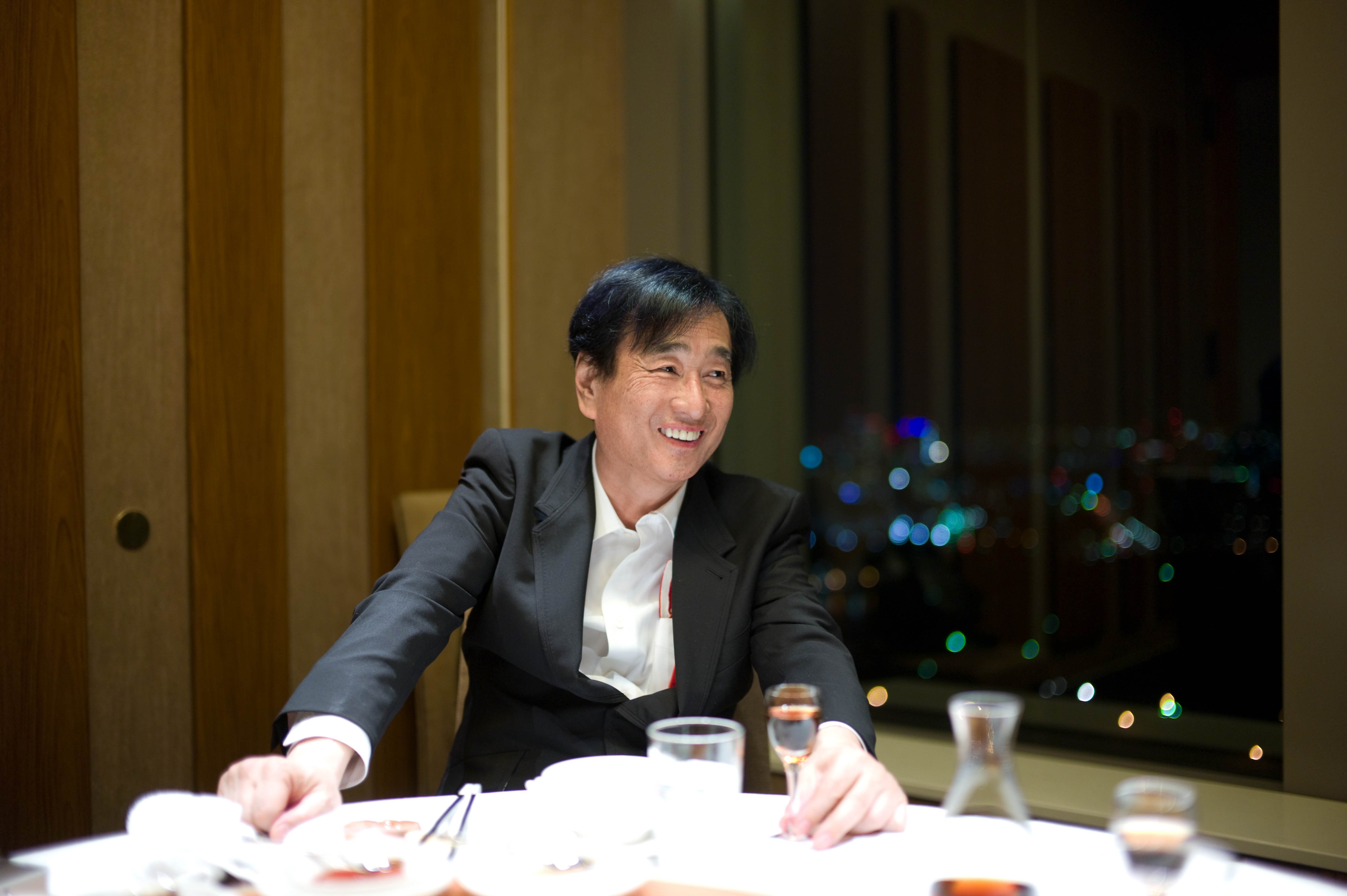 Shigeaki Saegusa, Professor of Tokyo College of Music, ate the dinner in Tōkyō Metropolis on January 24, 2010.